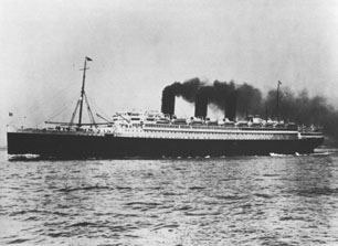 The French luxury liner SS Paris.